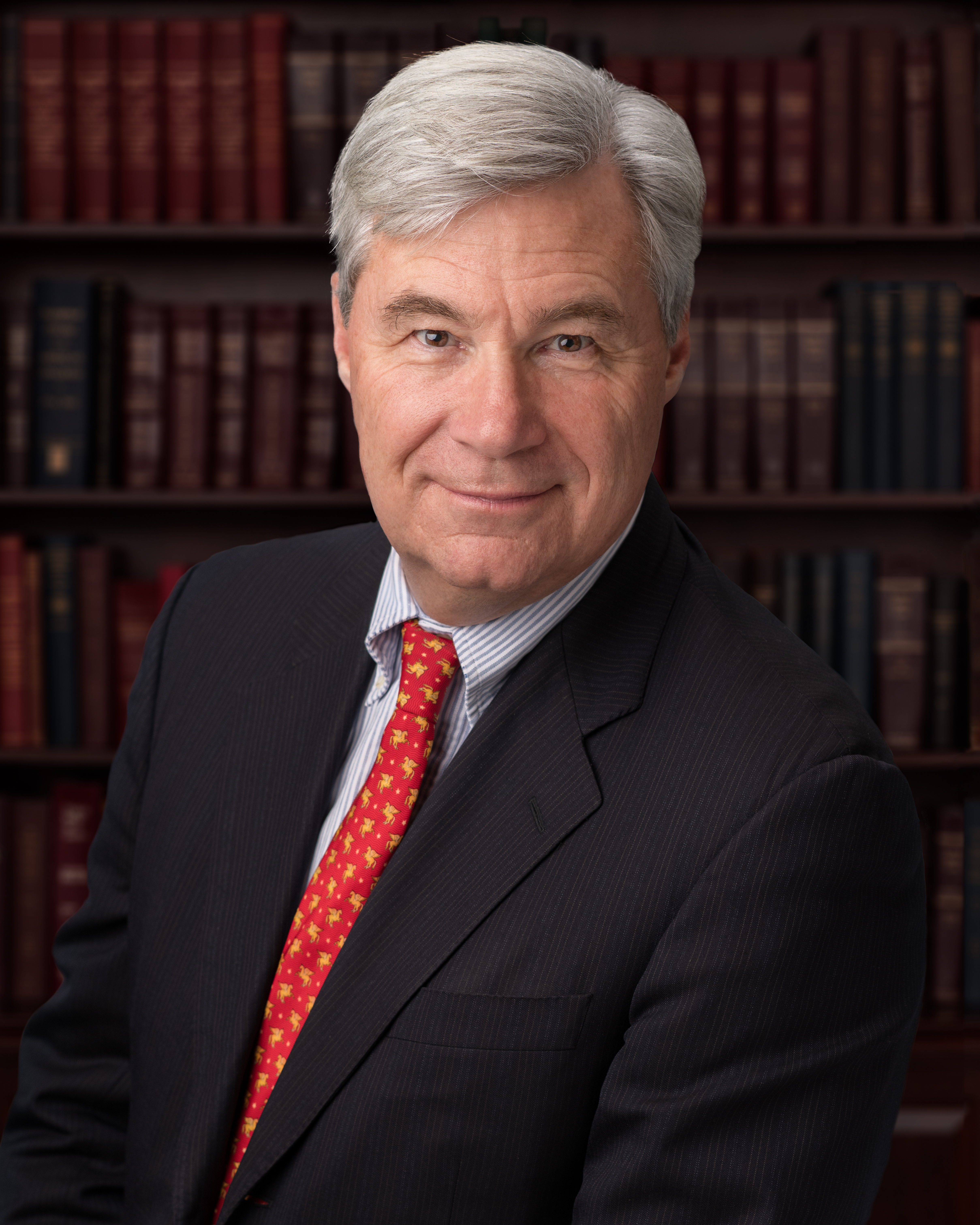 US Senator Sheldon Whitehouse of Rhode Island